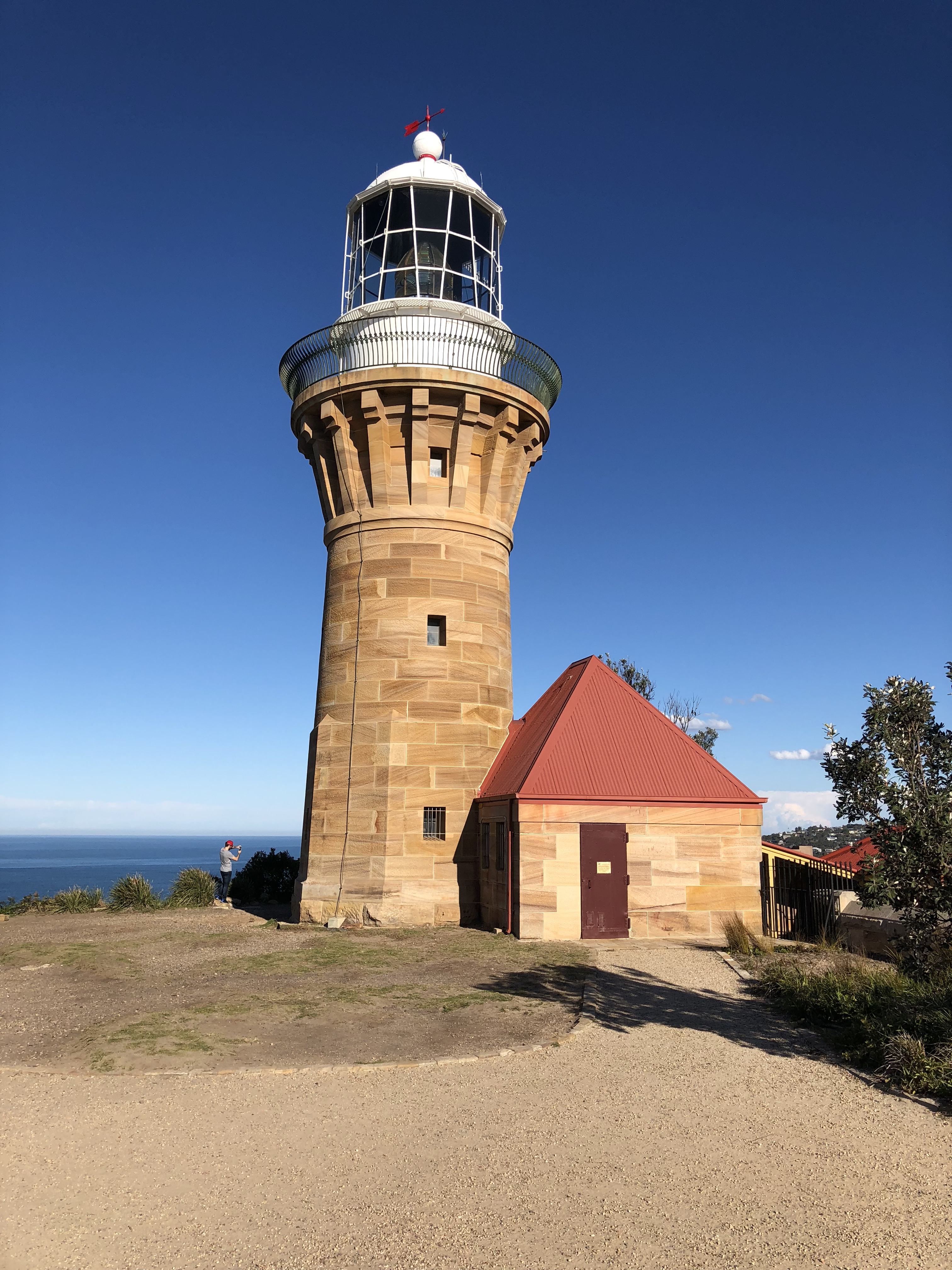 Barrenjoey Lighthouse sits at Sydney’s most northern point – Barrenjoey Head at Palm Beach. Positioned 91m above sea level, the lighthouse can be reached by a couple of walks and offers outstanding views. It's an easy day trip from Sydney and a great place to bring overseas visitors – they may recognise the lighthouse from Home and Away and will find Summer Bay Surf Club nearby. The lighthouse is one of the most iconic sights on Sydney's northern beaches and boasts a notable cultural heritage. Built in 1881 from sandstone quarried on site, the lighthouse, its oil room and keepers’ cottages remain unpainted in the original stone finish.